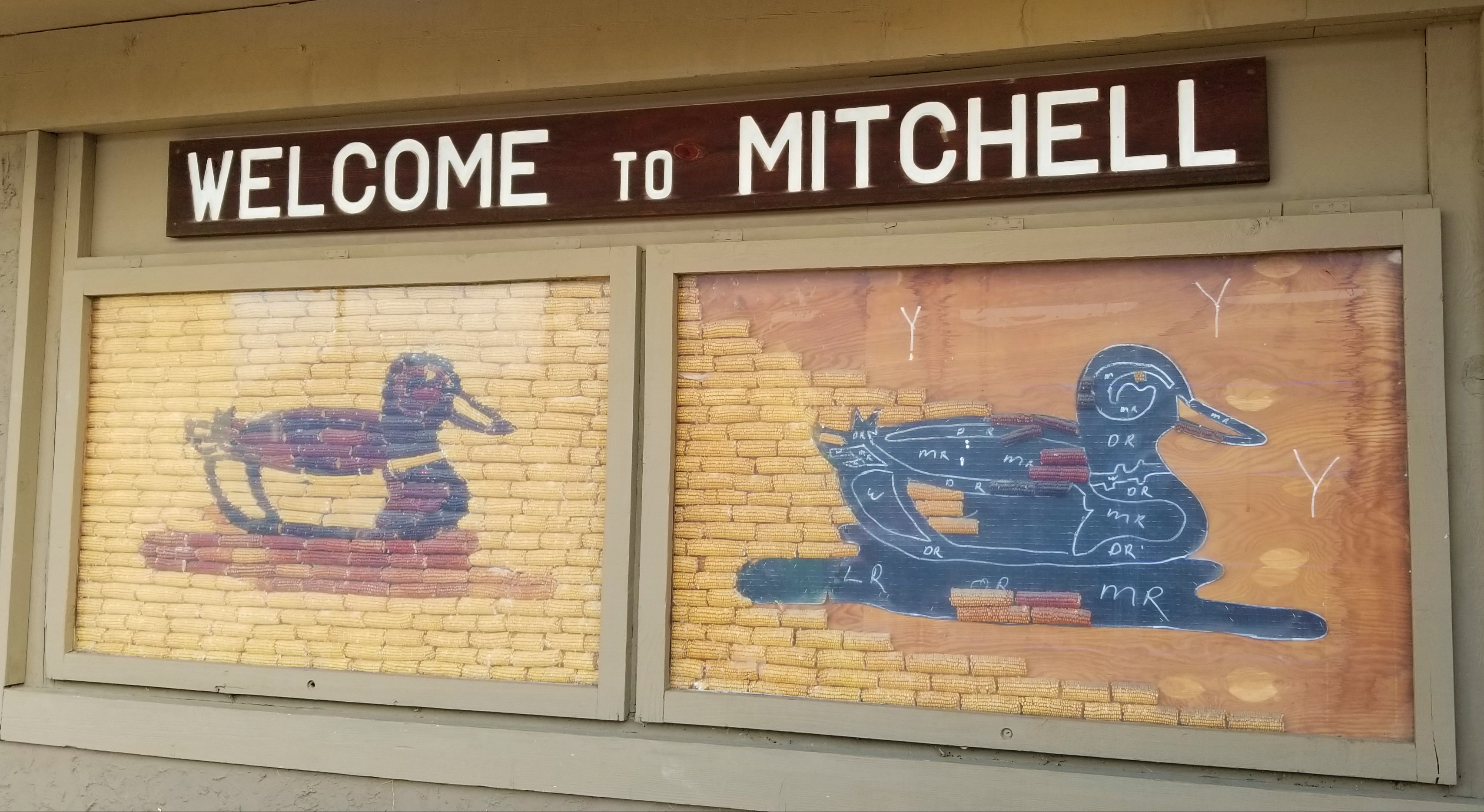 Small display showing the construction technique used to create artistic murals made of corn cobs, featuring a "corn-by-numbers" pattern